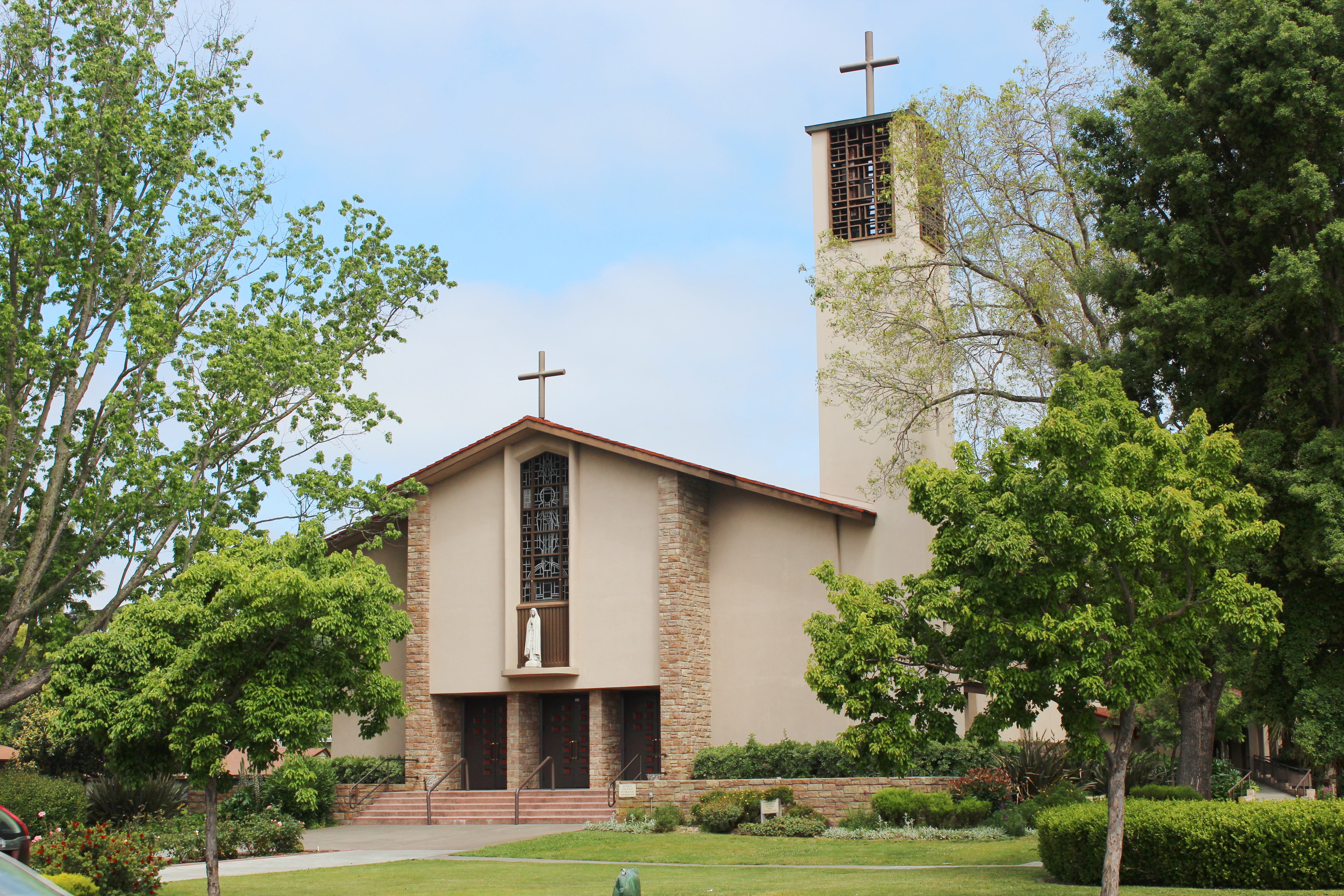 The entrance of the Cathedral of St. Eugene in Santa Rosa, CA, facing NNW